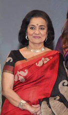 Waheeda Rehman on Raveena's NDTV chat show.